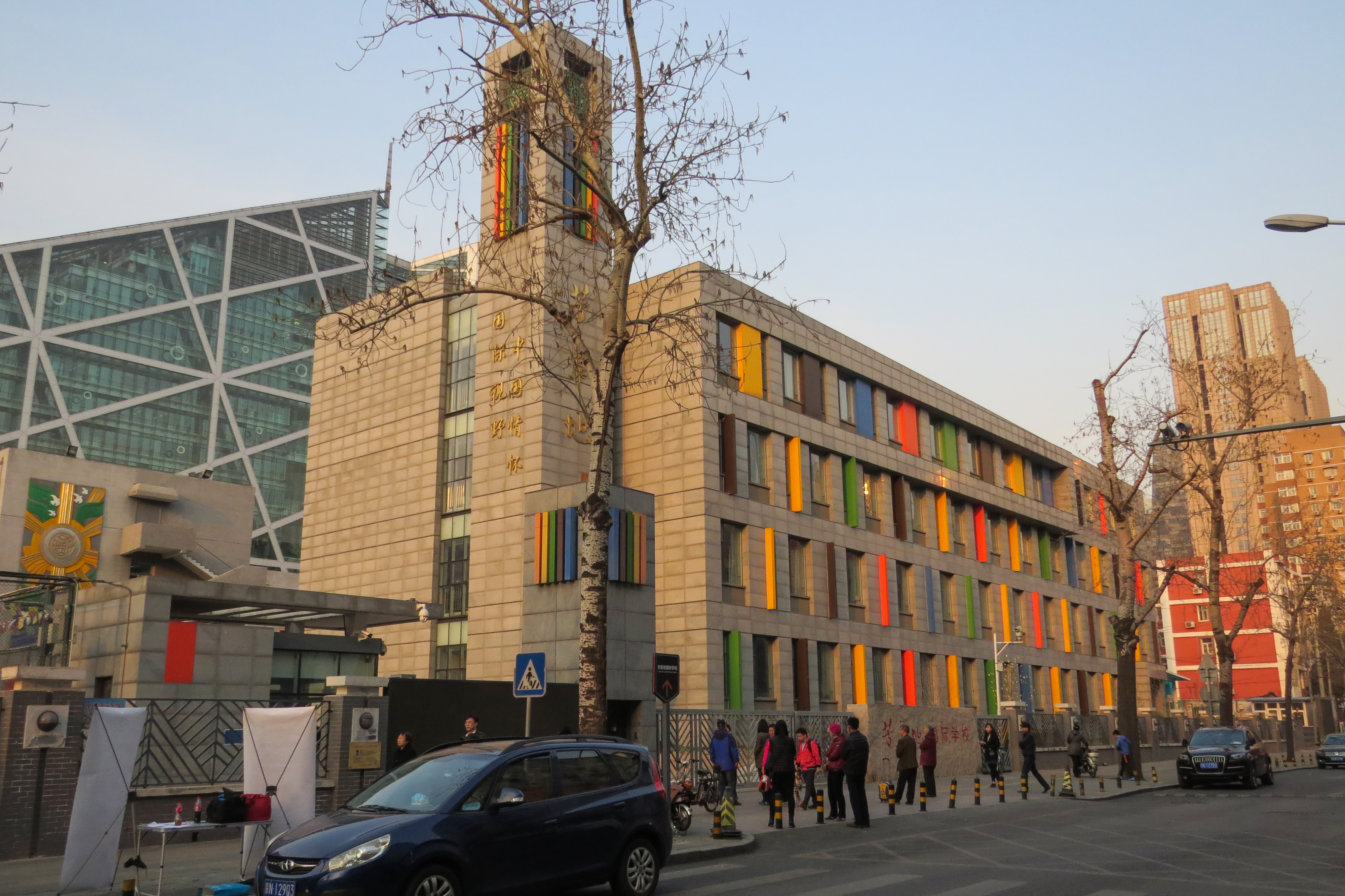 Reputed for accepting foreign students, this is one of the landmarks in "Yerba Buena".